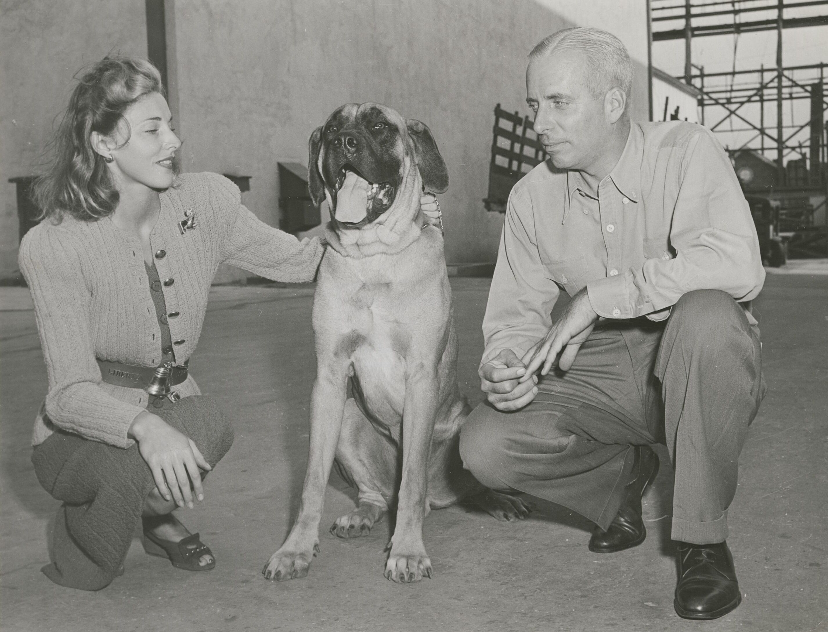 Howard Hawks with Slim Keith and dog. Date is uncertain, but Slim and Hawks were married 1941-1949. Probably early 1940s